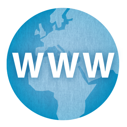 Web resource digital preservation. Icon used for digital preservation topics